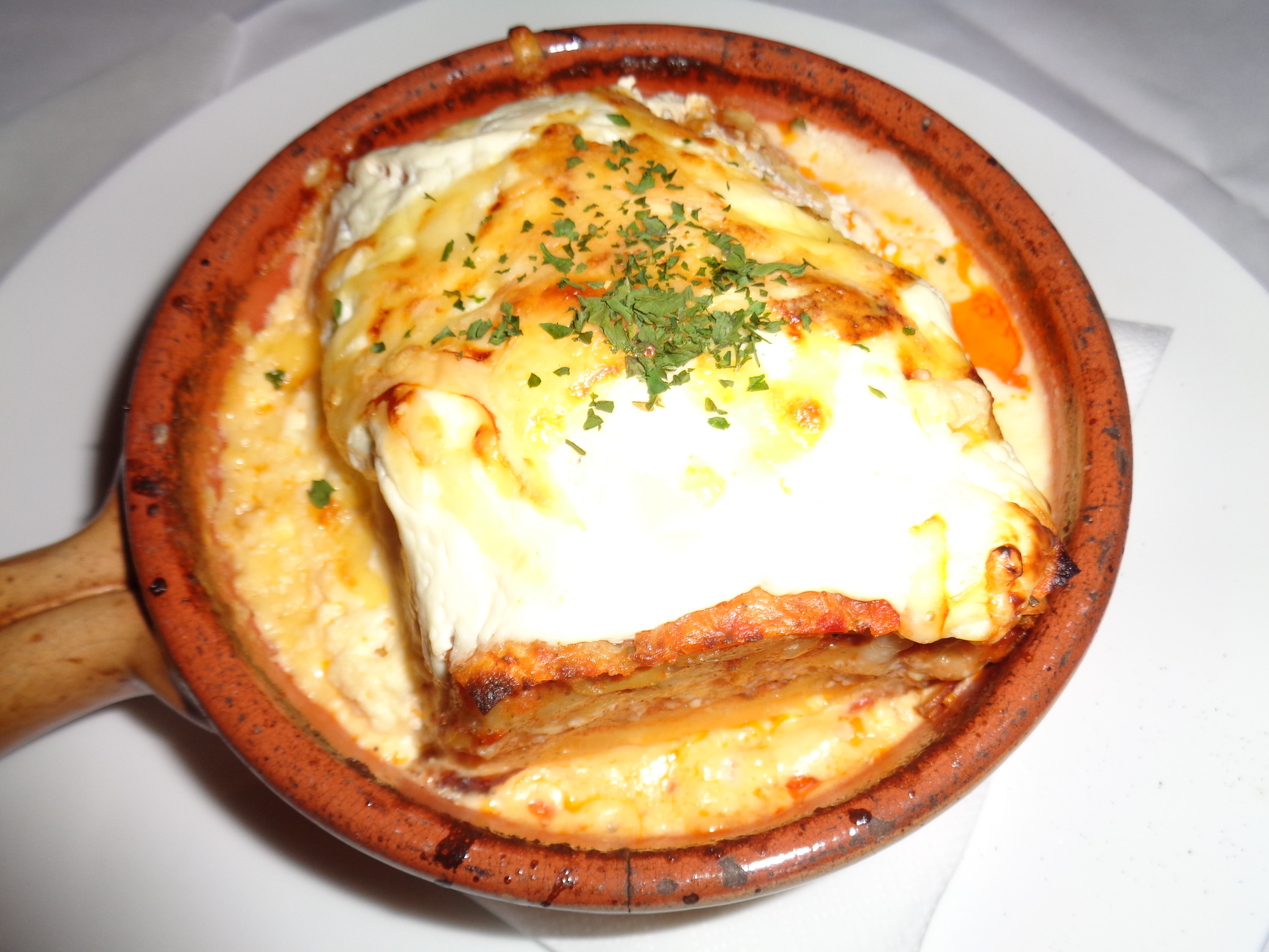 Lasagne, Italian dish, served in a pottery bowl (Čakovec, Croatia)